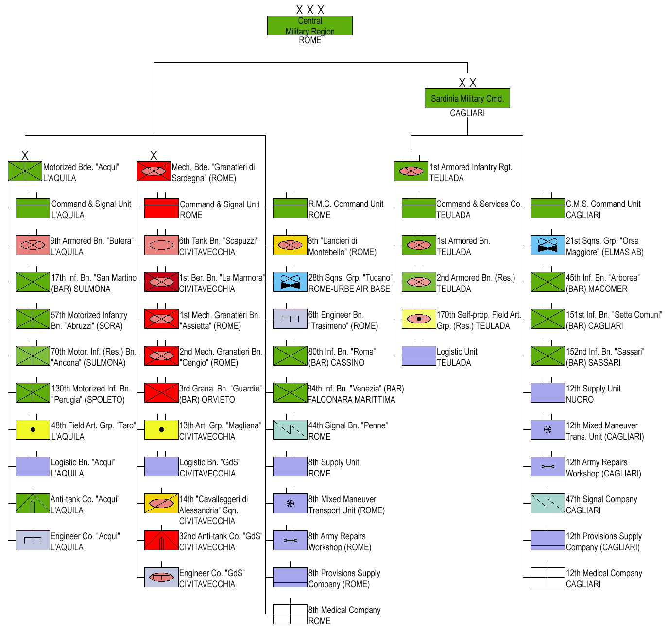 Structure of the Italian Army's Central Military Region in 1977